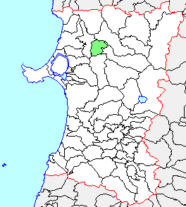 Location map of former Aikawa town, Akita Prefecture, Japan